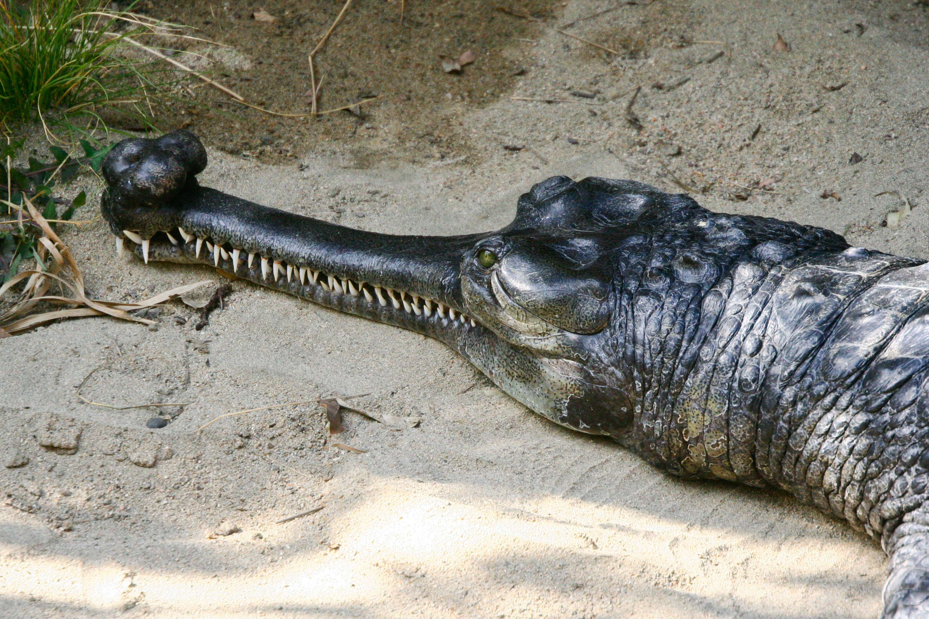 Gharial (Gavialis gangeticus), San Diego Zoo